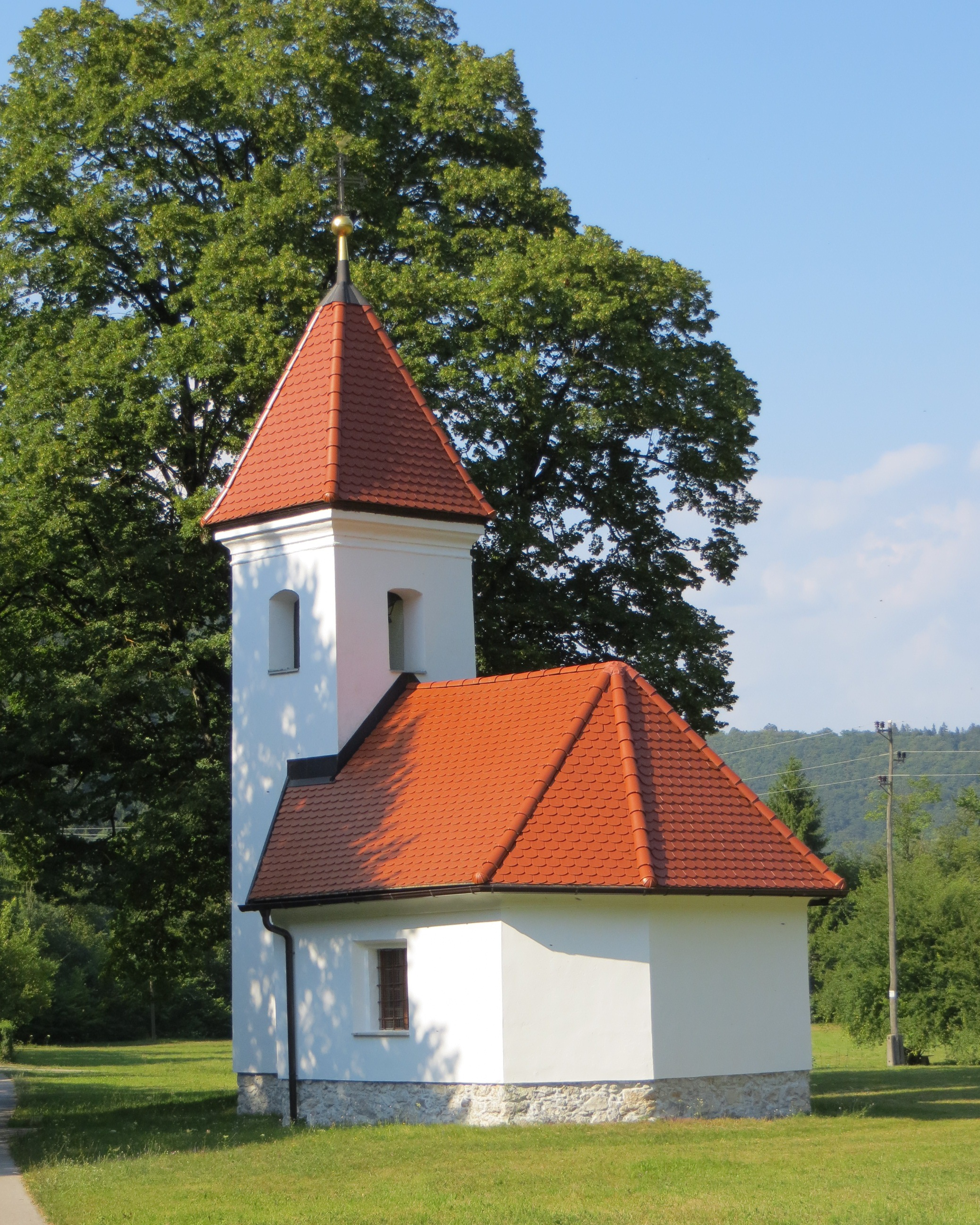 Saint Gertrude's Church in Iška, Municipality of Ig, Slovenia